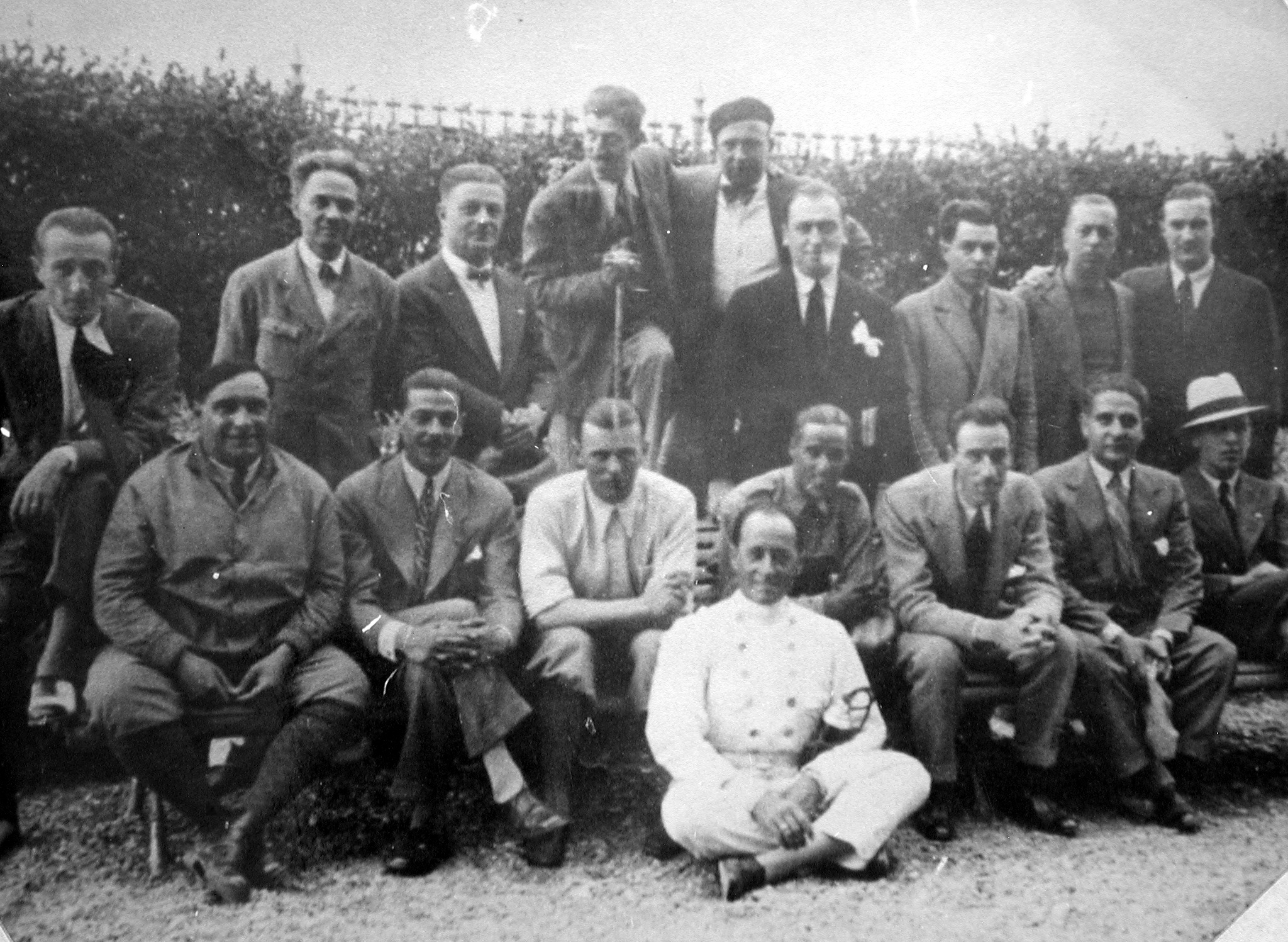 Sitting from left: Giuseppe Campari, Prospero Gianferrari, Achille Varzi, Luigi Arcangeli, Tazio Nuvolari.